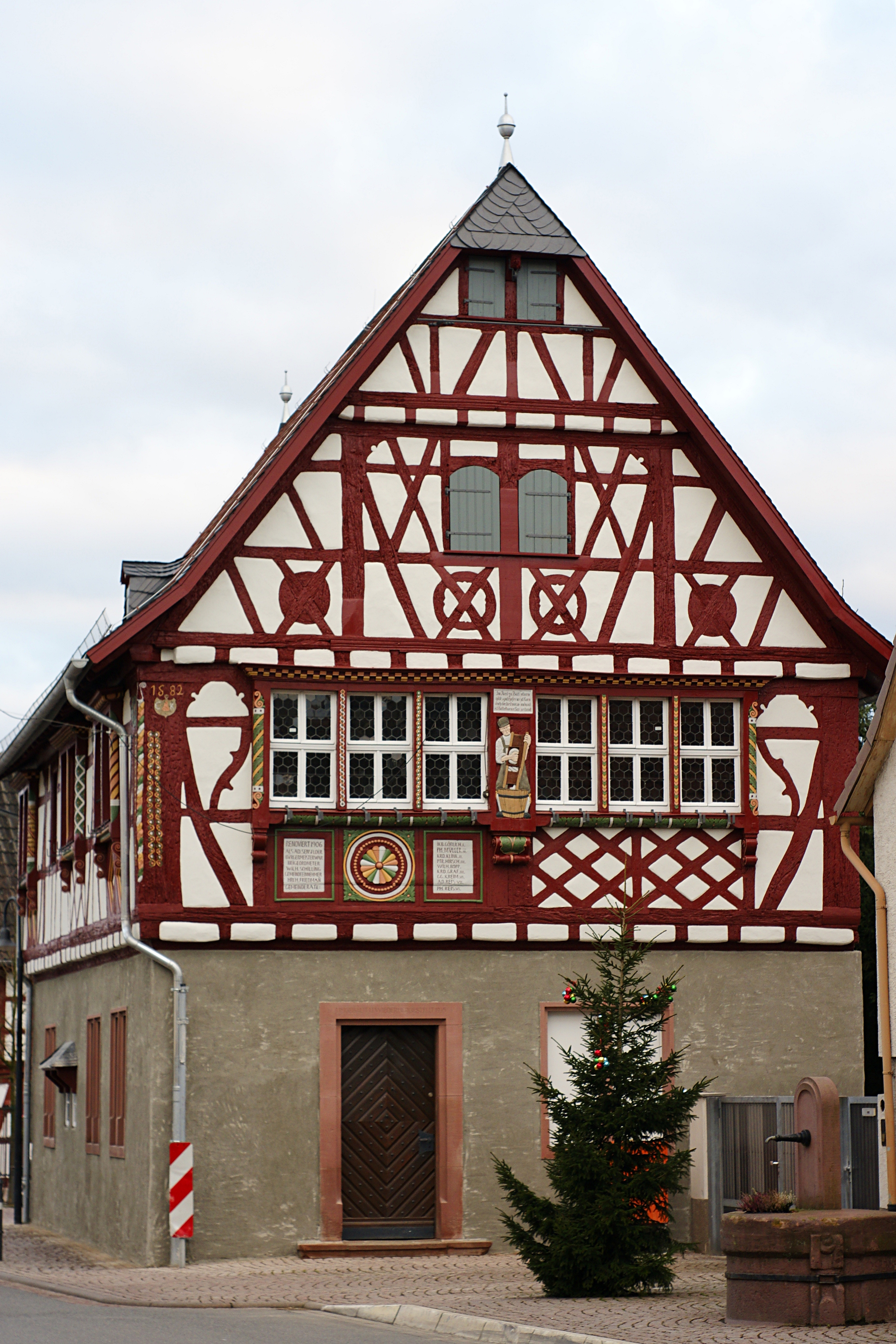 Old town hall in Büttelborn, Germany